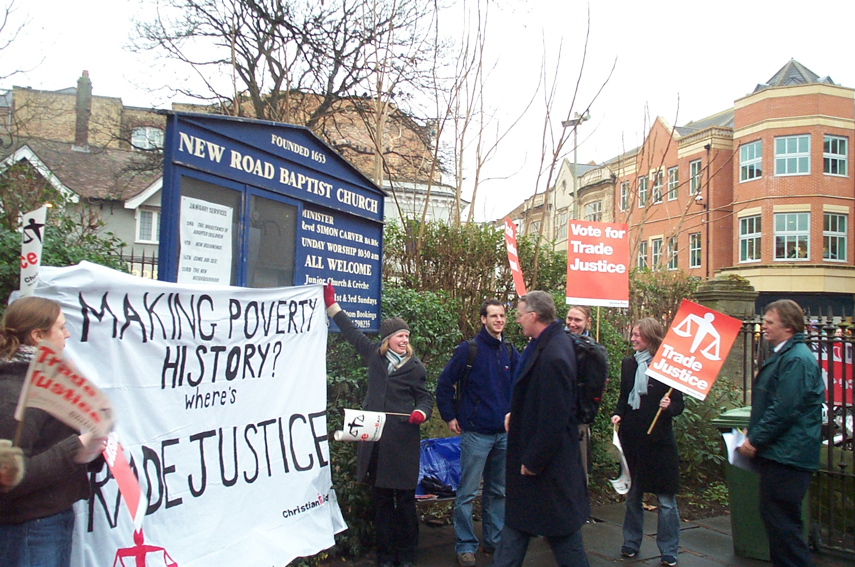 Campaigners from Christian Aid with MPs Hilary Benn and Andrew Smith in front of New Road Baptist church, Oxford, demonstrating for Trade Justice